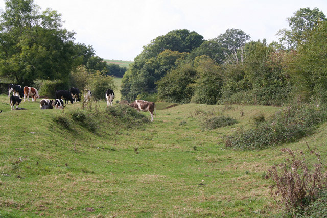 Wellington: the Grand Western Canal. The bed of the old canal is clearly visible here. Completed in 1838, this section was closed in 1867 following its acquisition by the Great Western Railway